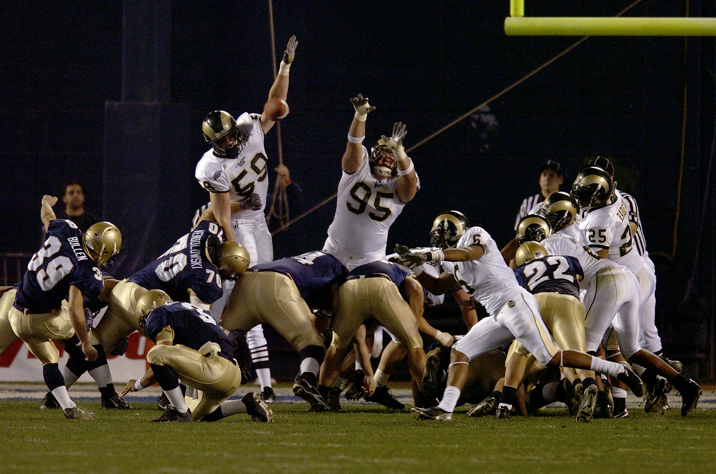 Defensive End number 59, Jesse Nading of the Colorado State Rams blocks an attempted field goal by Place Kicker number 39, Joey Bullen of the U.S. Naval Academy's Midshipmen in the inaugural San Diego Credit Union Poinsettia Bowl.